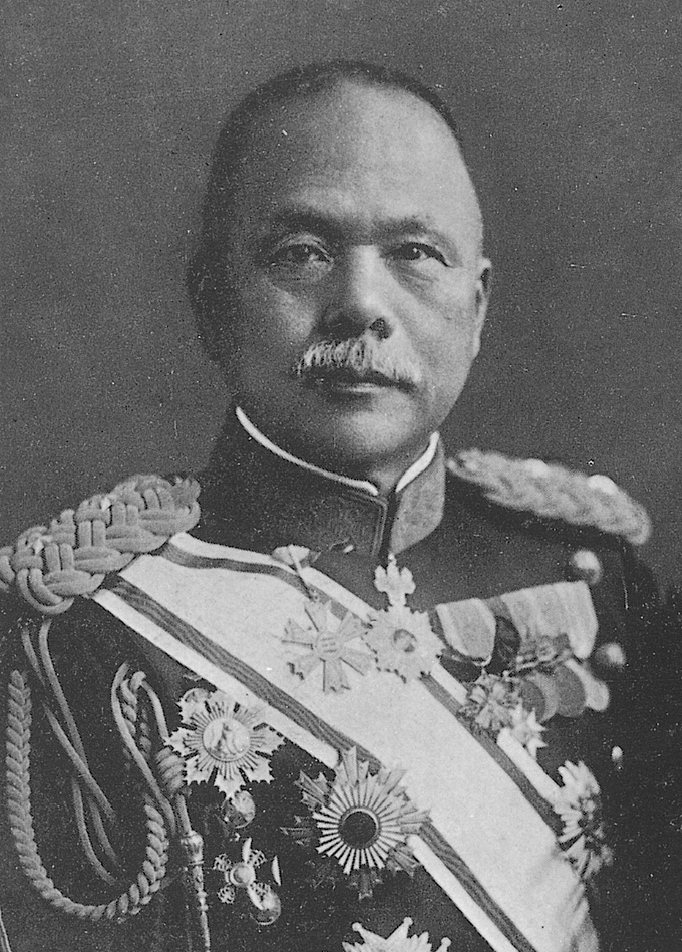 Portrait of Ugaki Kazushige (宇垣一成, 1868 – 1956)